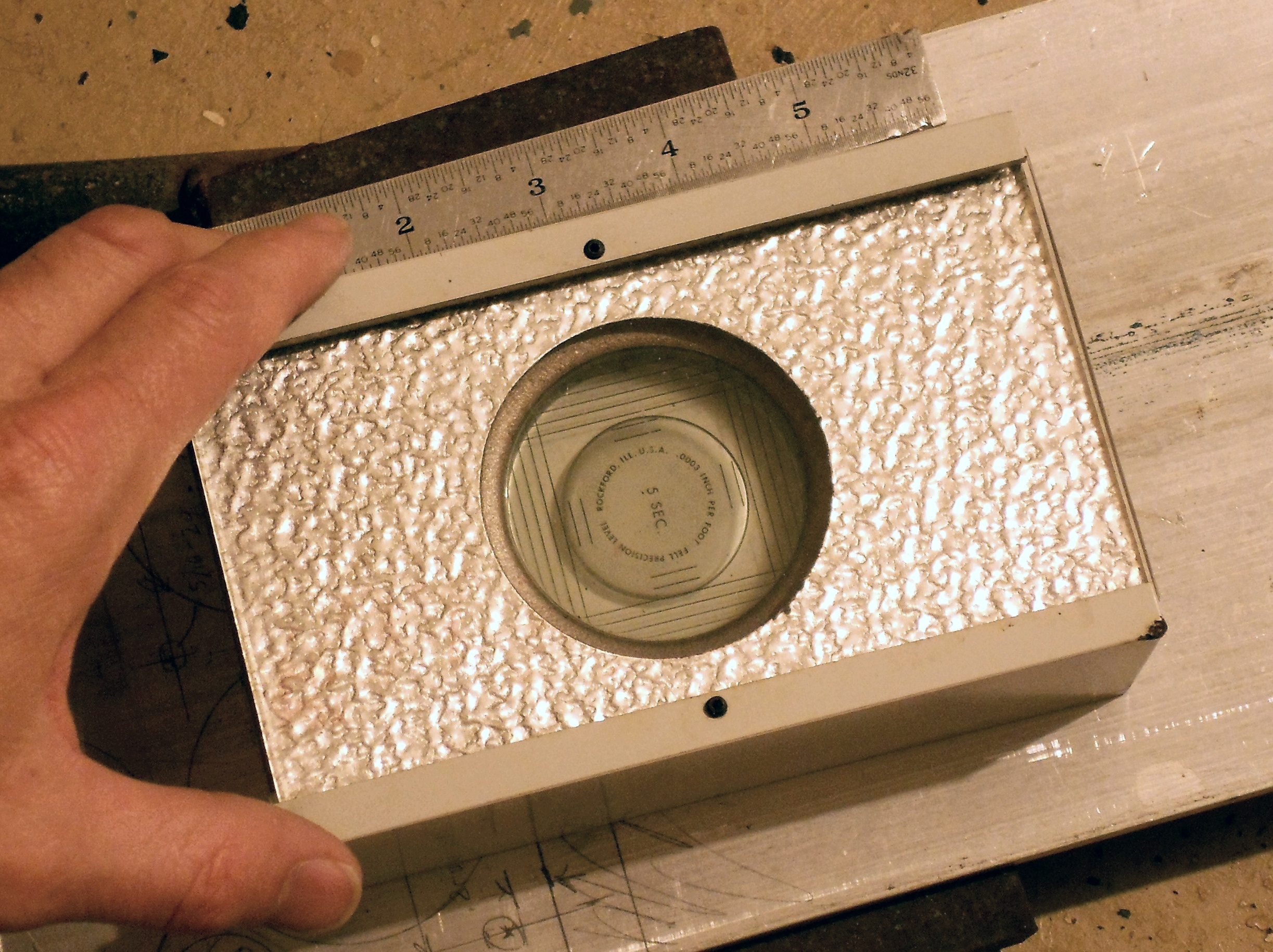 Fell All-Way precision level. 3 tenths per 2mm division. Made circa 1970.